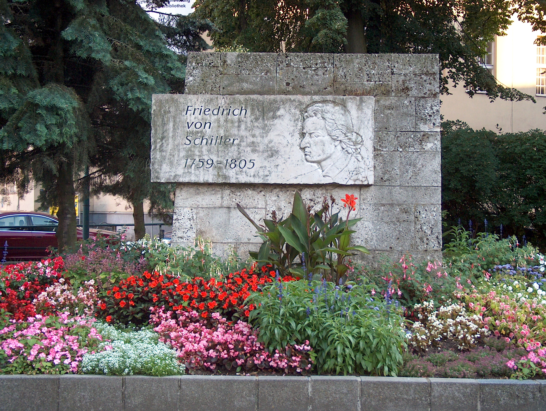 Linz - Friedrich von Schiller 1759-1805 - Memorial in Schiller Platz